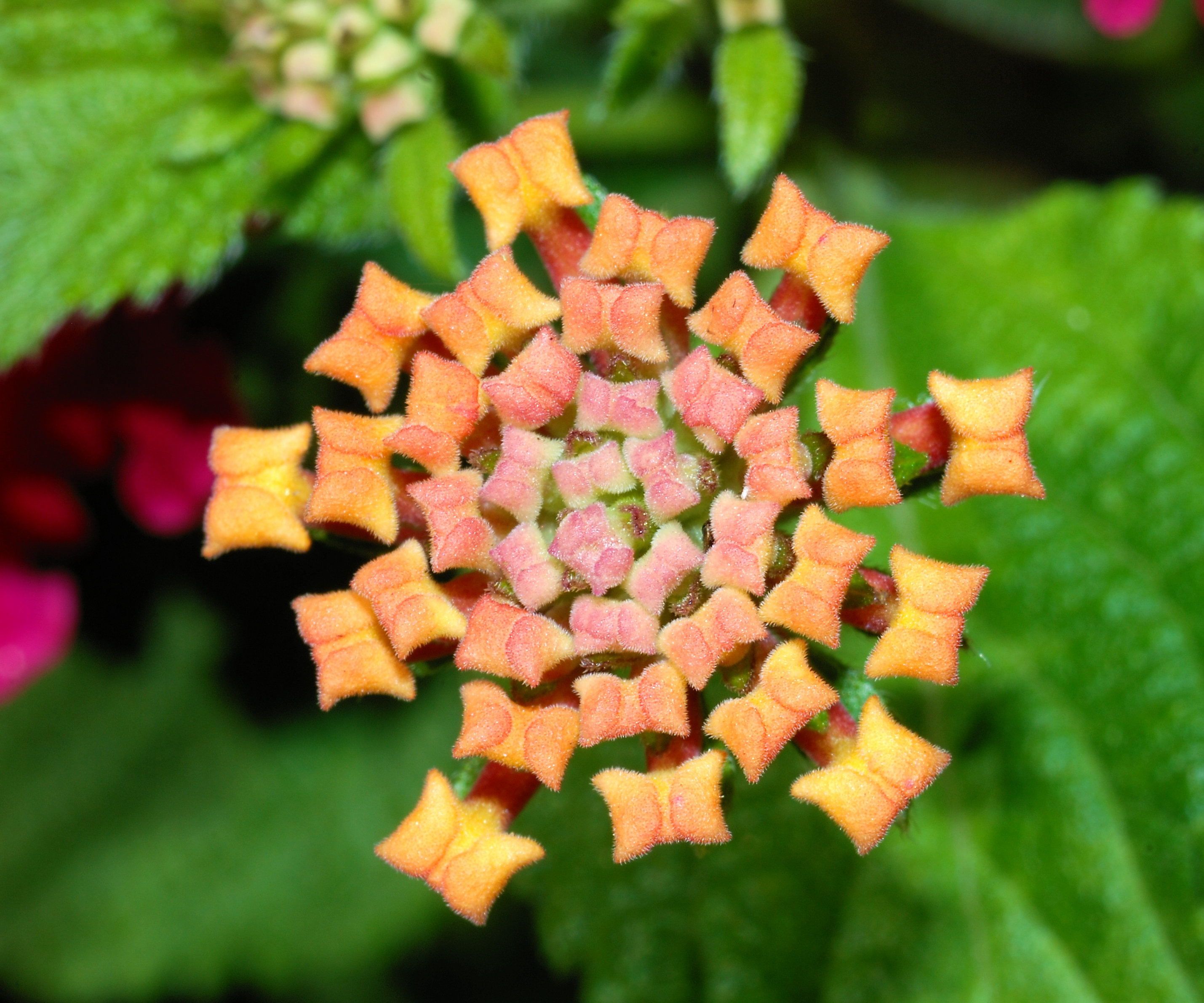 Buds of a Lantana camara